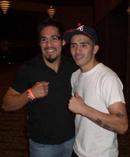 Brandon Rios & Antonio Margarito at Event.